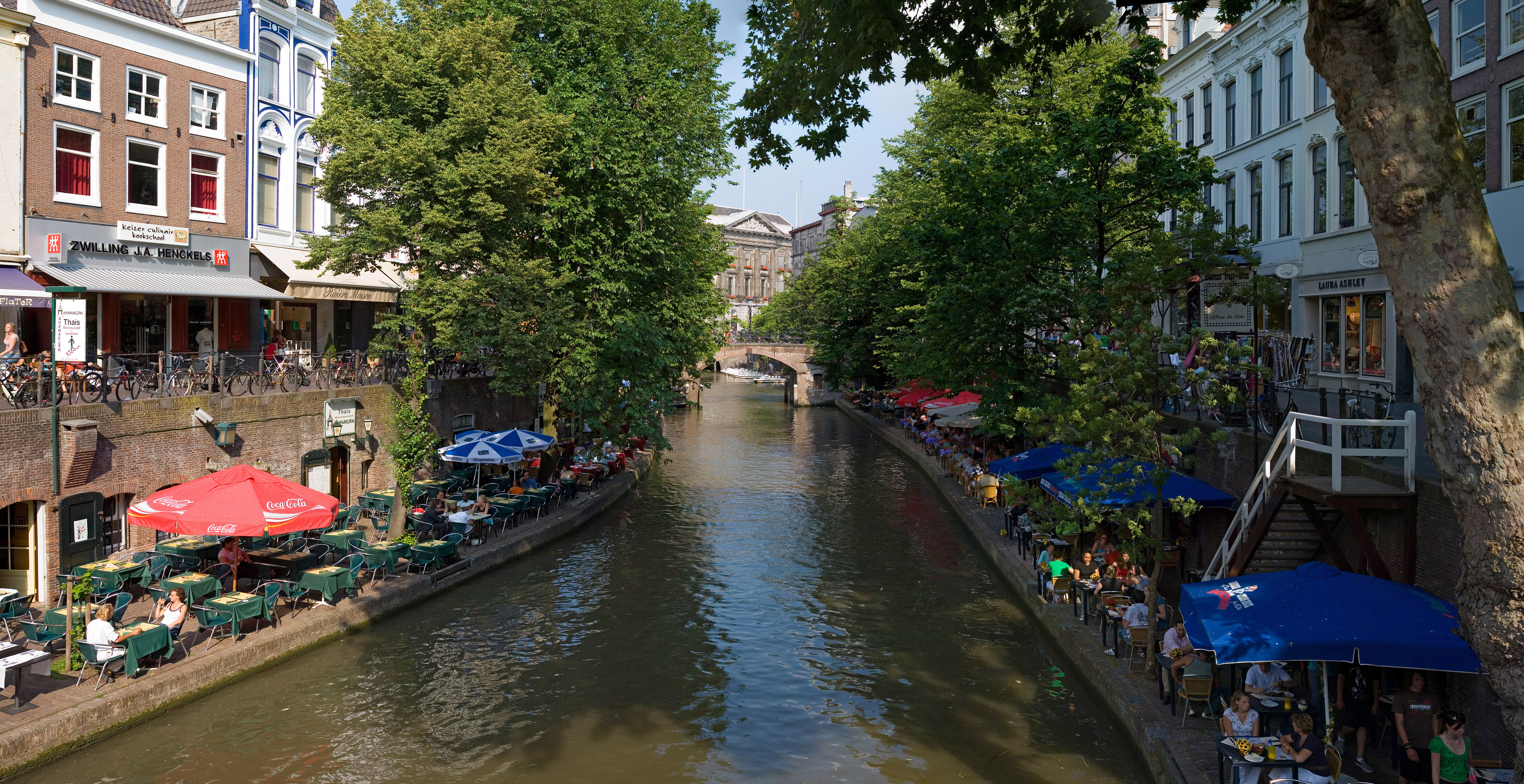 Oudegracht, the main canal of Utrecht, Netherlands. Taken by myself with a Canon 5D and 24-105mm f/4L IS lens.